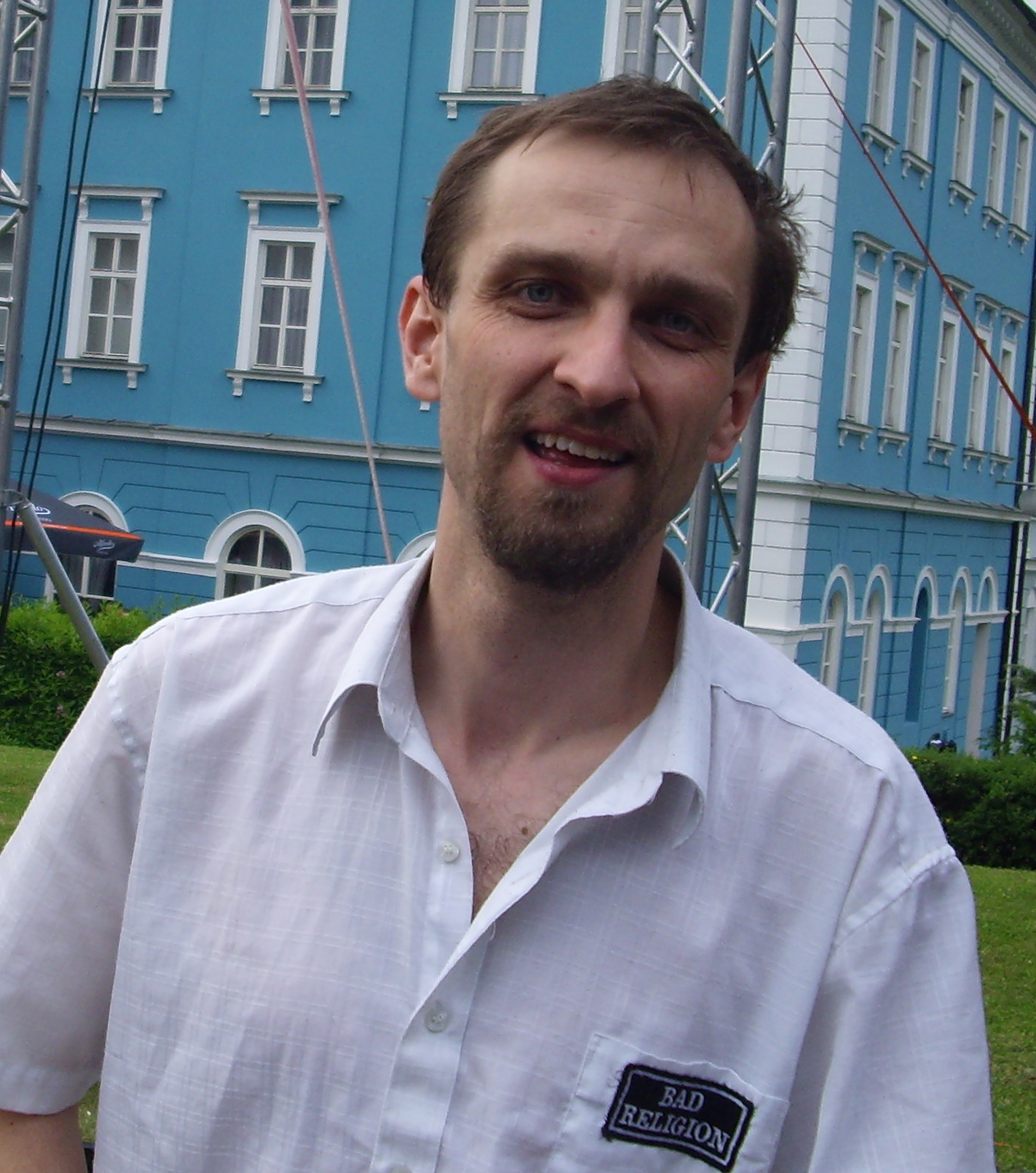 Aleš from Czech punk-rock band Jaksi Taksi, in Teplice in May 2008